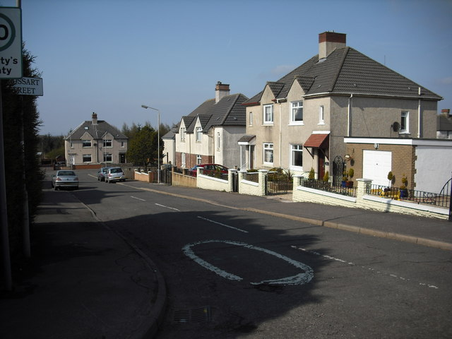 Grossart Street Council houses built in the 1920's. Named after Dr. Grossart who wrote the 'History of the Parish of Shotts' published in 1880. Many of the tenants have taken up the option of 'right to buy'.